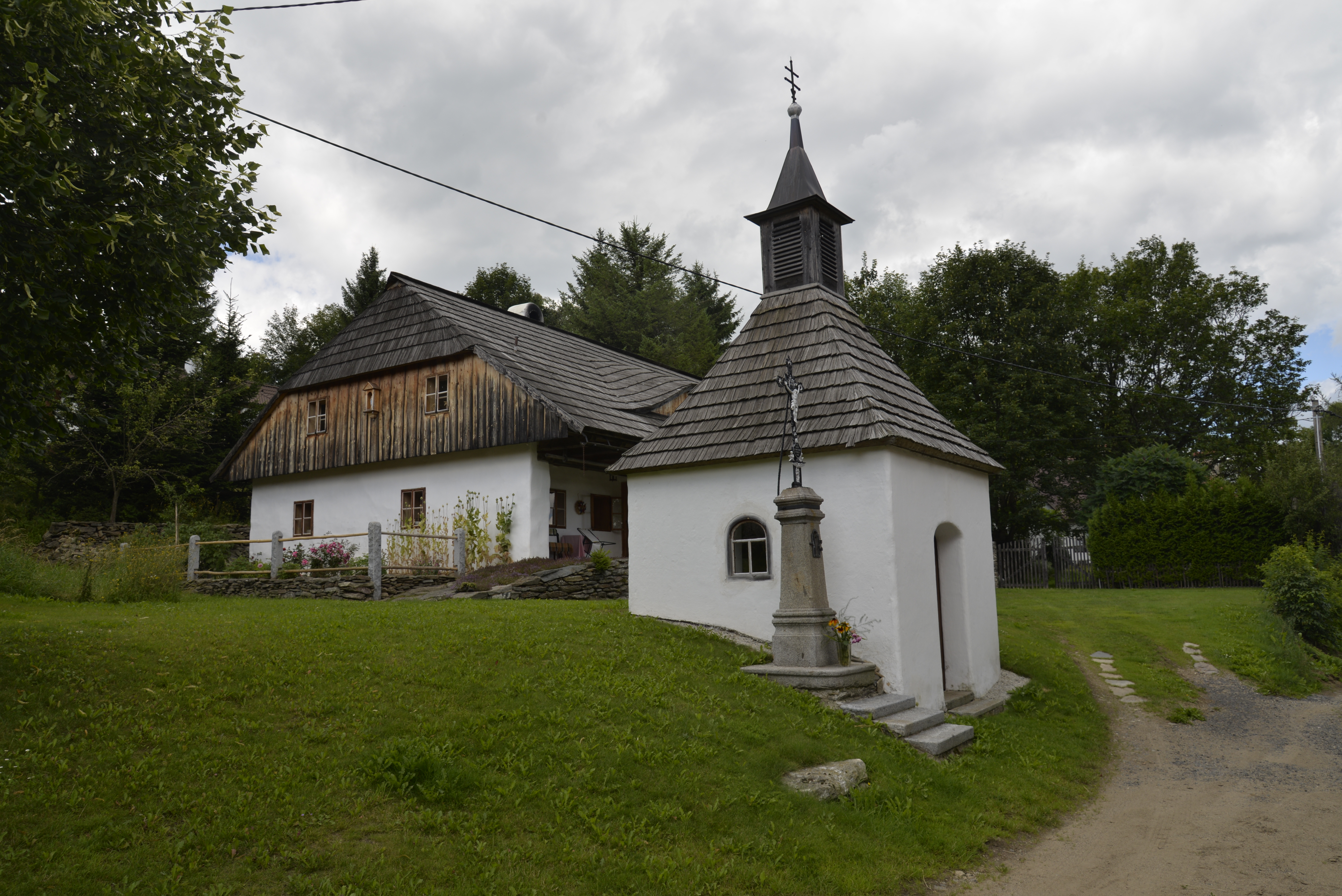 Čeletice - small village, part of Hlavňovice in Klatovy District, chapel and cross